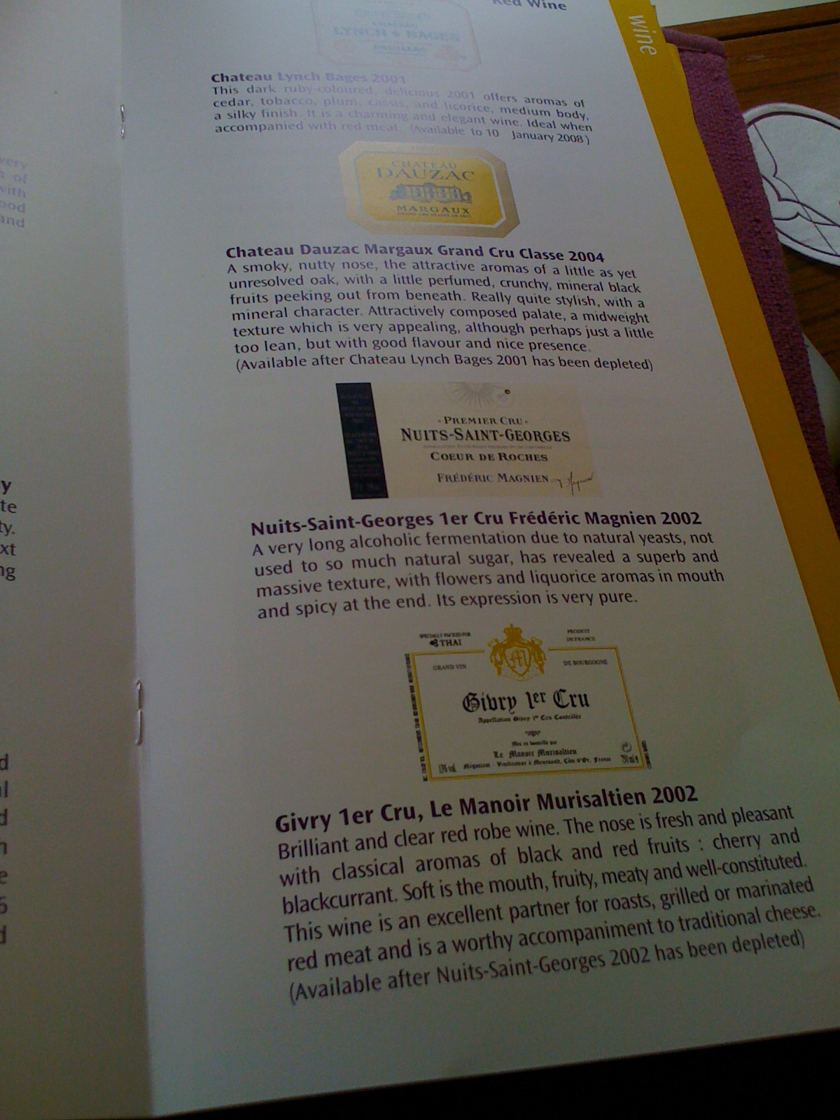 A Hong Kong wine list that features label illustrations